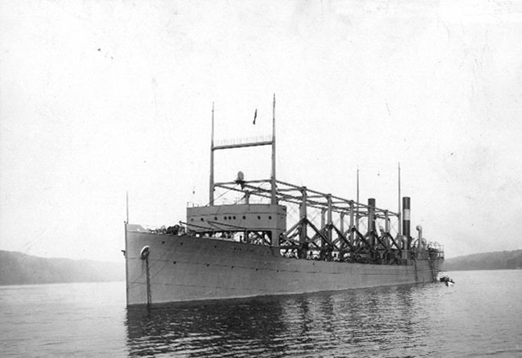 USS Cyclops (1910-1918); Anchored in the Hudson River, off New York City.